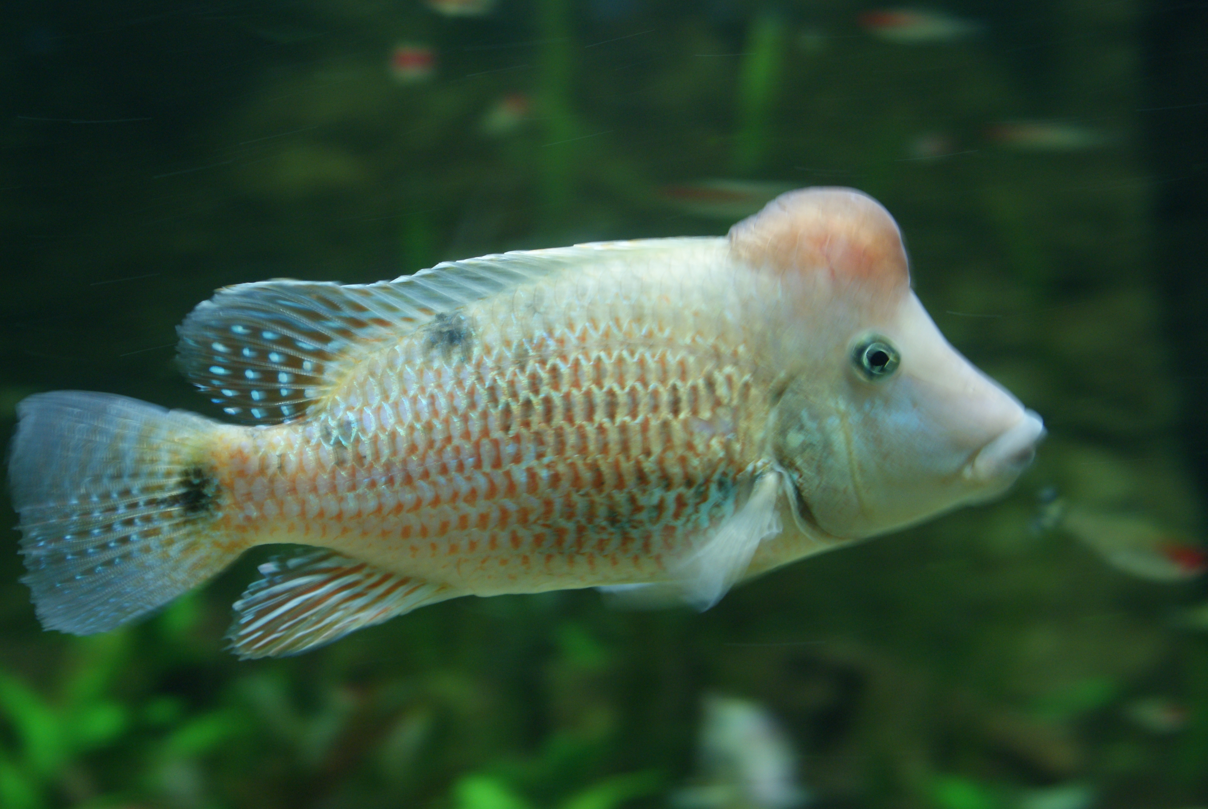 Geophagus steindachneri in Tropicarium-Oceanarium Budapest